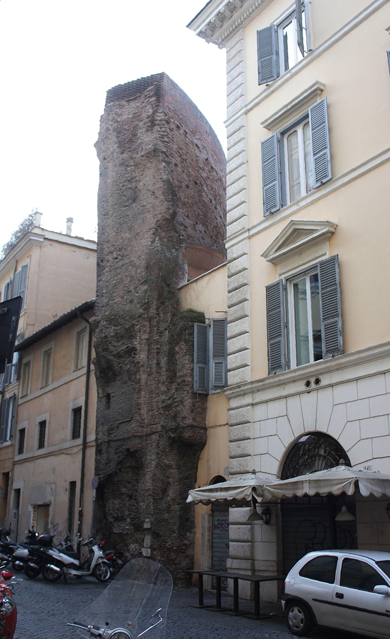 Rome, the Baths of Agrippa